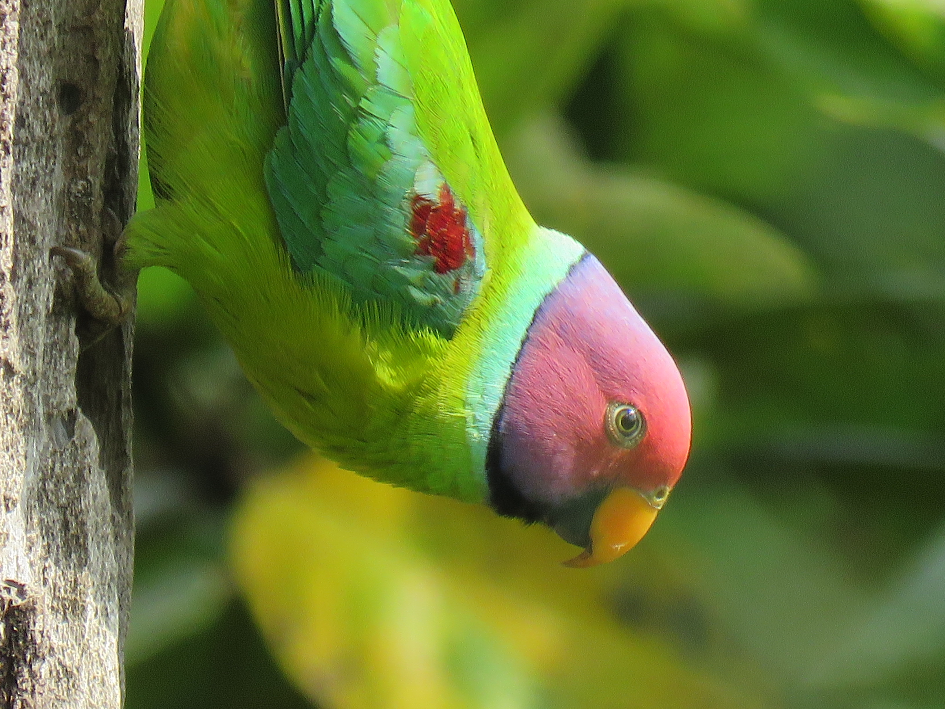 Plum Headed Parakeet _IMG 3395 Cinchona, Valparai